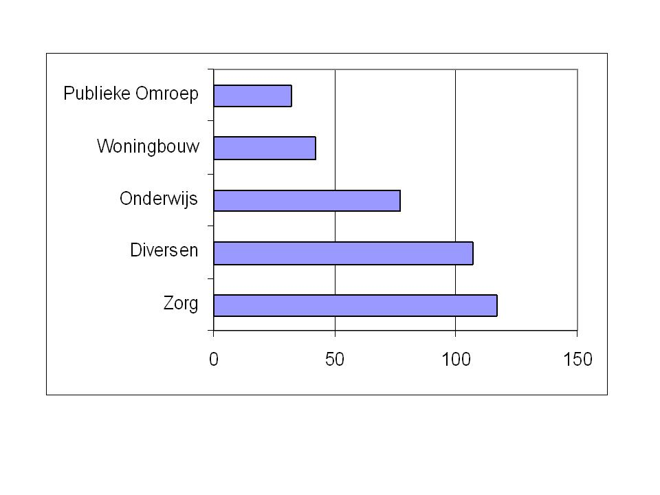 Top salaries by sector (Dutch).